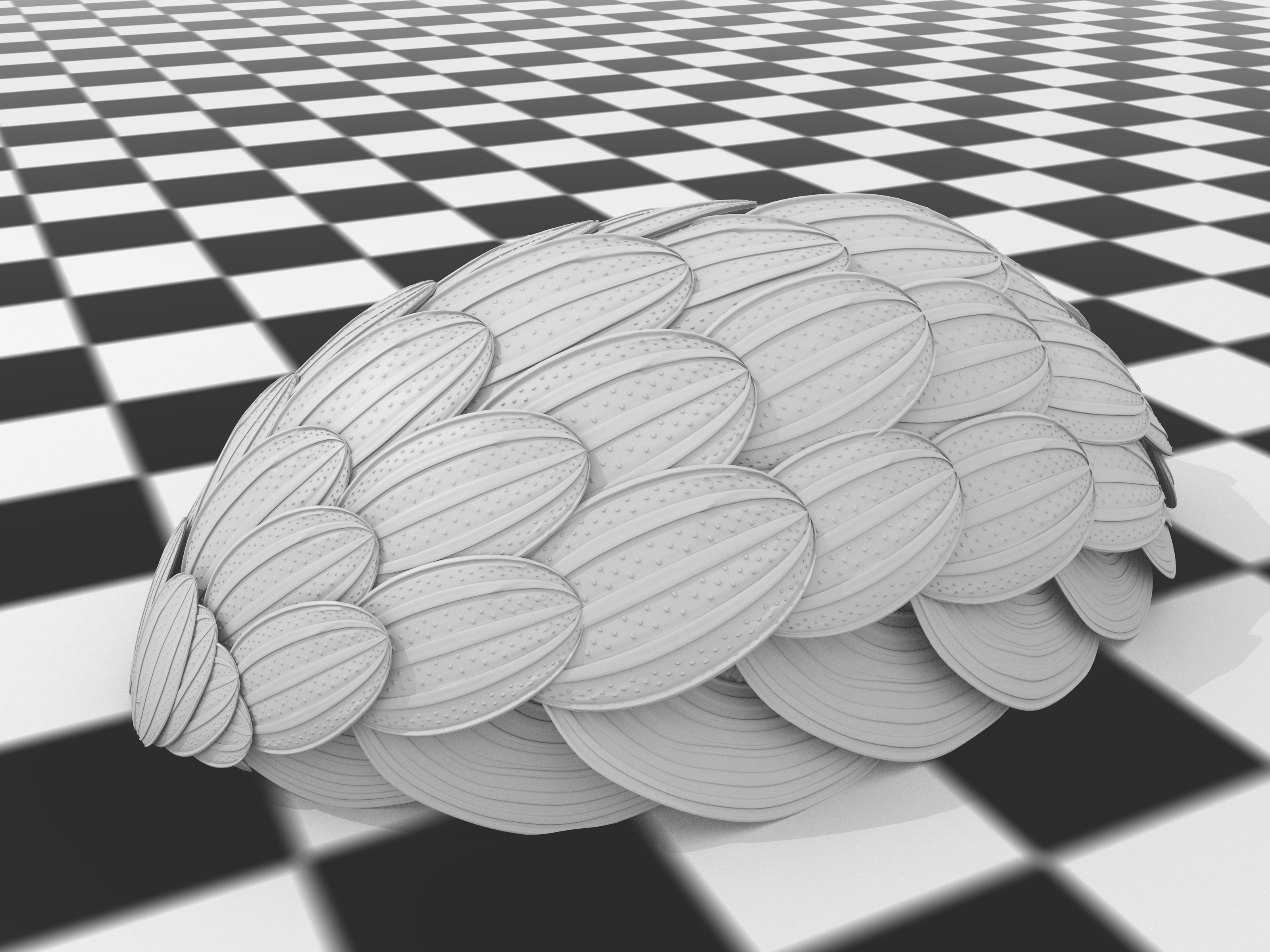 Computer reconstruction of juvenile Wiwaxia corrugata individual. Chequers represent 1 mm.